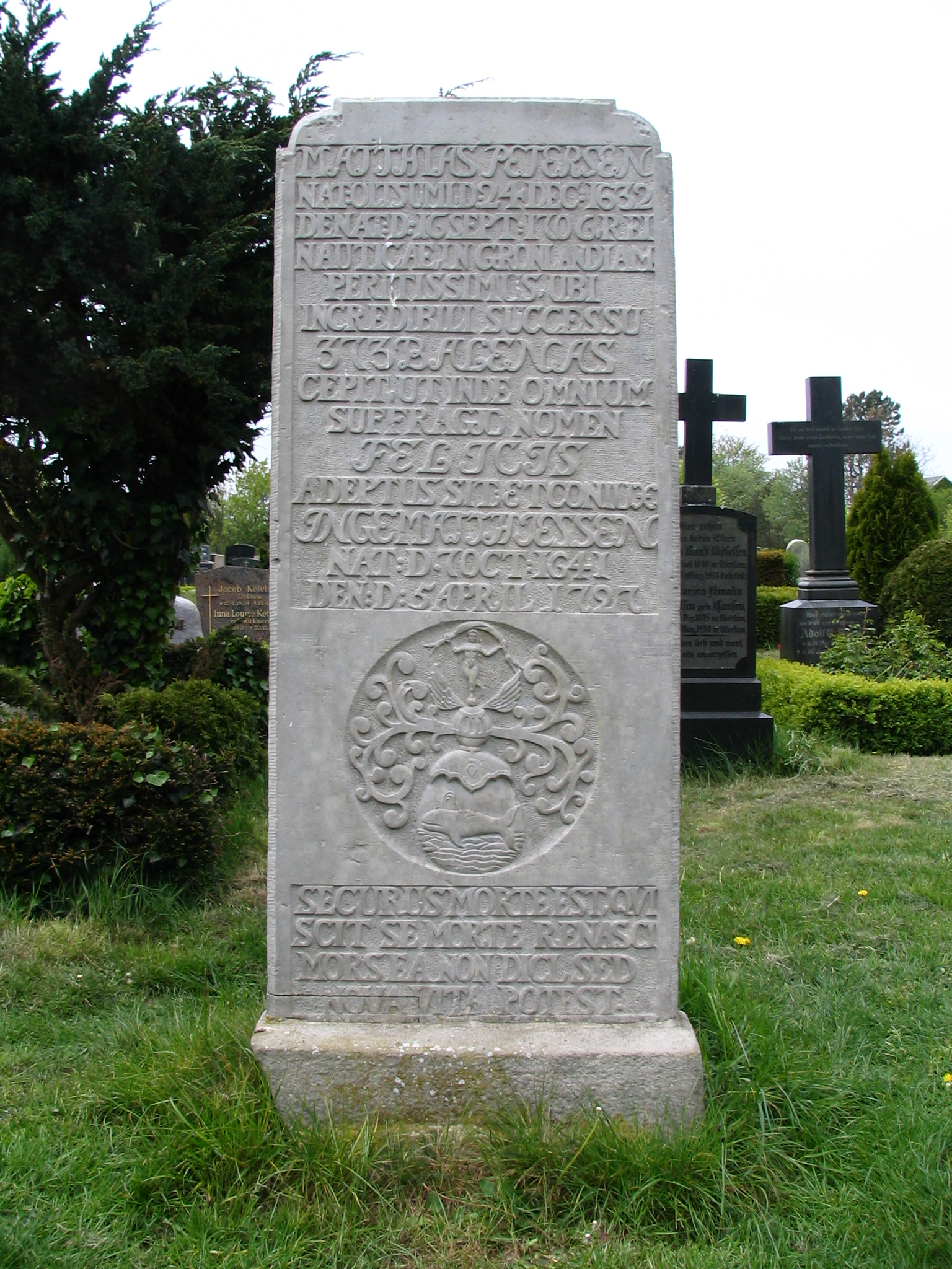 Matthias Petersen's tombstone, St. Laurentii graveyard, Föhr